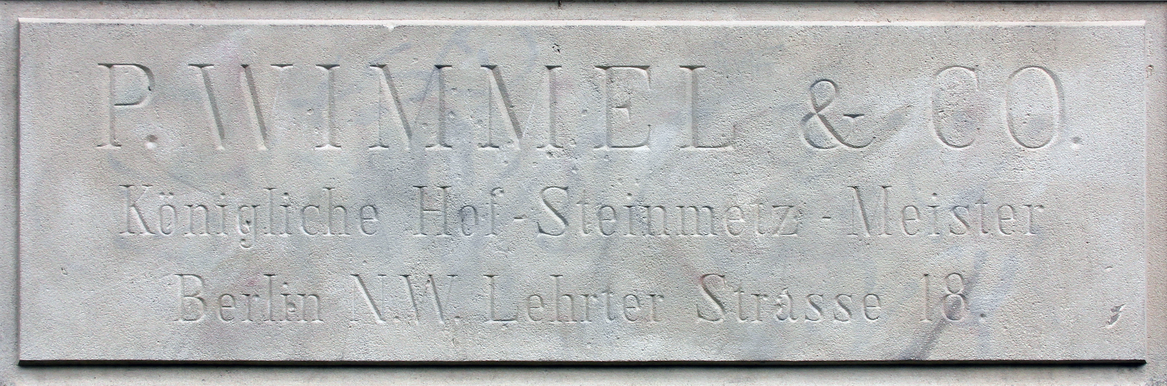 Memorial plaque, Paul Wimmel, Am Sandwerder 1, Berlin-Wannsee, Deutschland